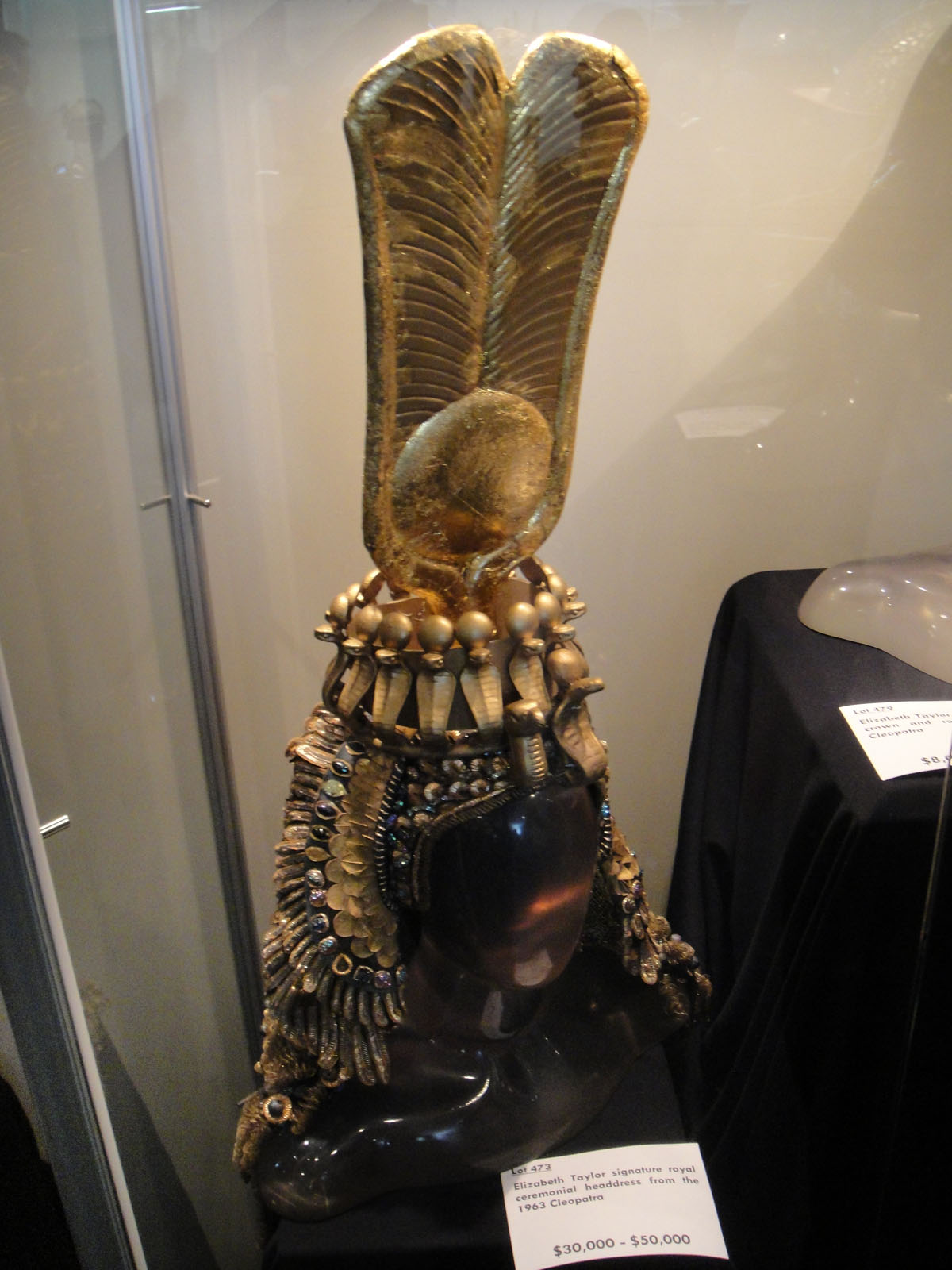 Headdress worn by Elizabeth Taylor as Cleopatra in the film Cleopatra (1963) displayed at the Debbie Reynolds Auction Breaks Up Historic Hollywood Collection (The Paley Center for Media in Beverly Hills, Los Angeles, CA, USA). Designed by Irene Sharaff.